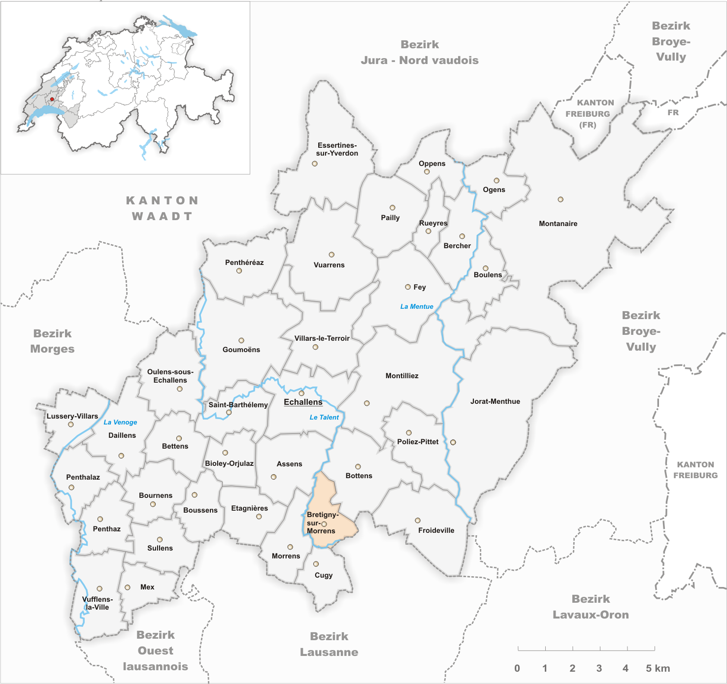 Municipality Bretigny-sur-Morrens